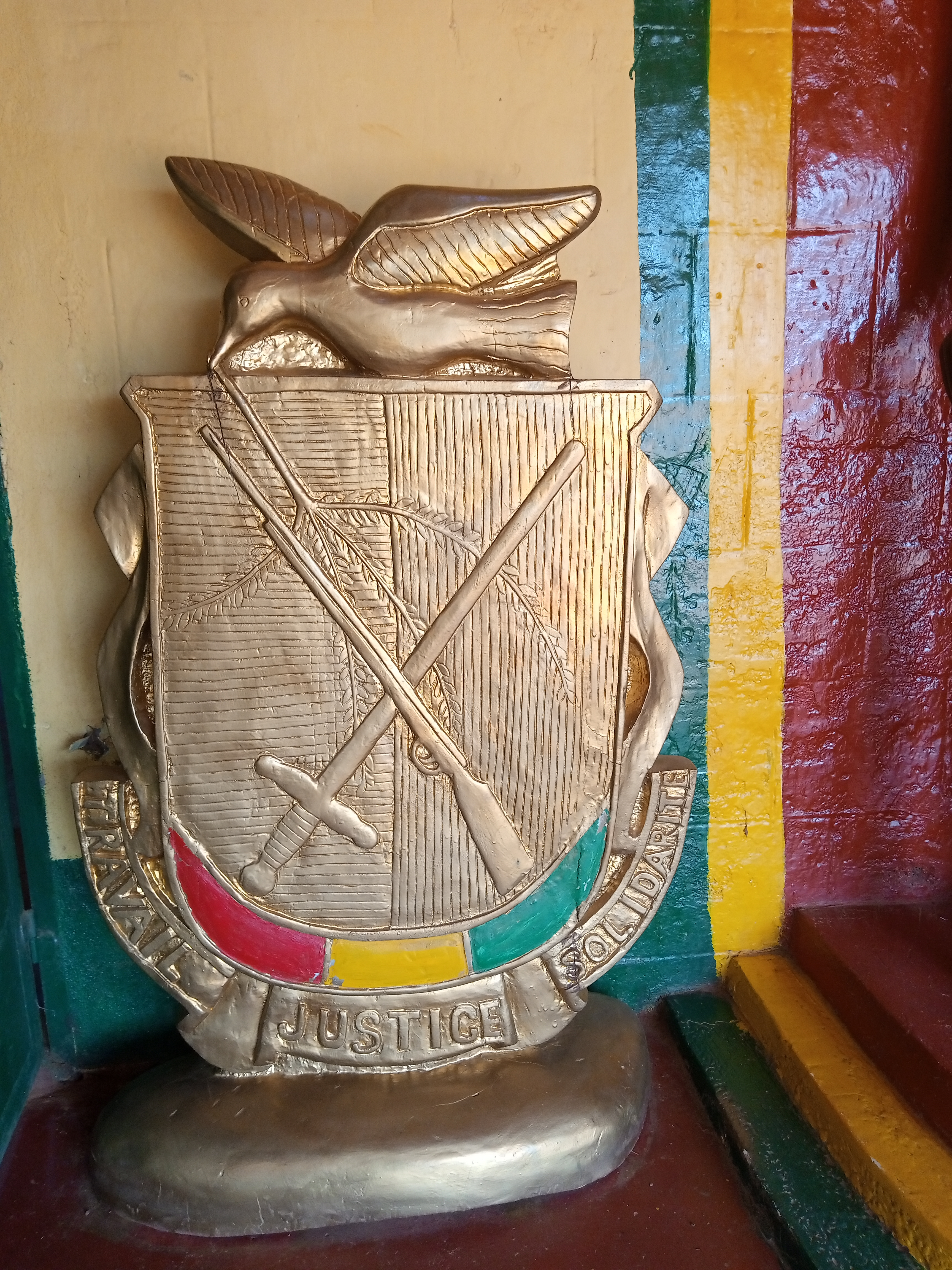 Emblème qui se trouve au Camp Soundiata Keïta de Kankan